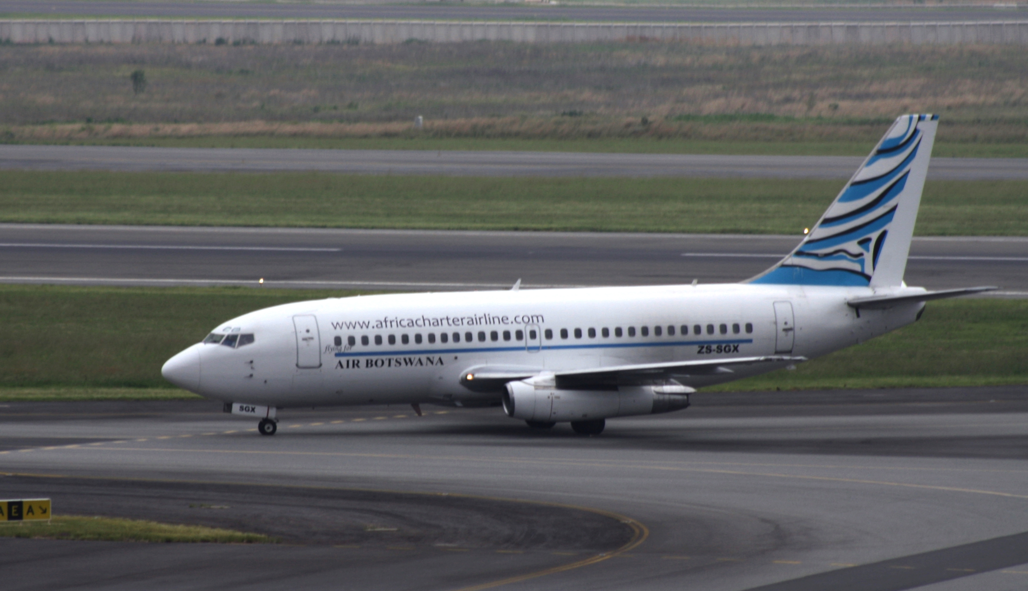 Air Botswana B737-2T5 ZS-SGX